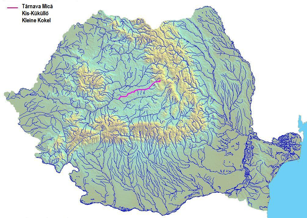 The Târnava Mică River is a river in Transylvania.